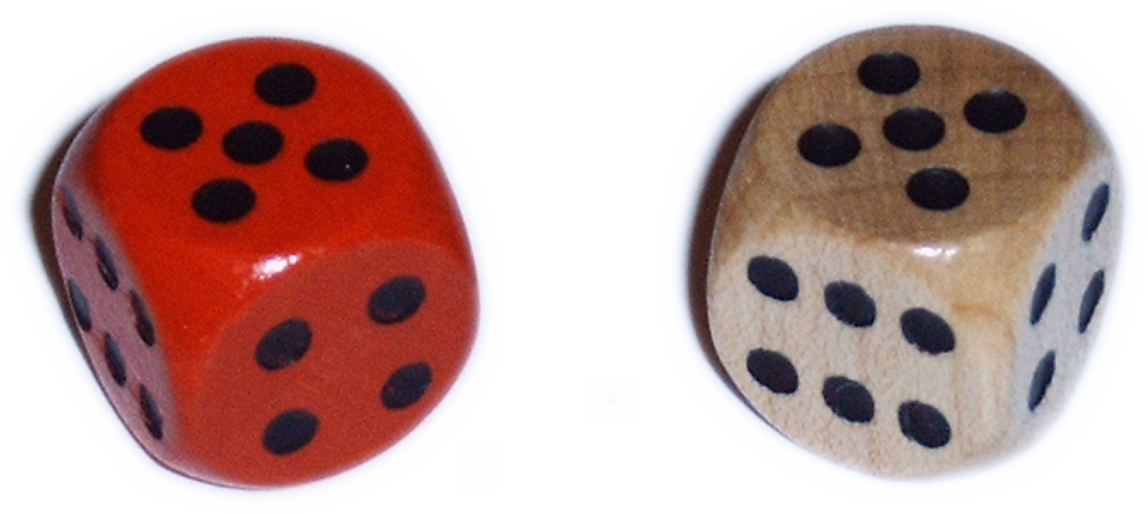 Source: Alexander Dreyer Two dice, all combination of eyes. Photographed by myself.